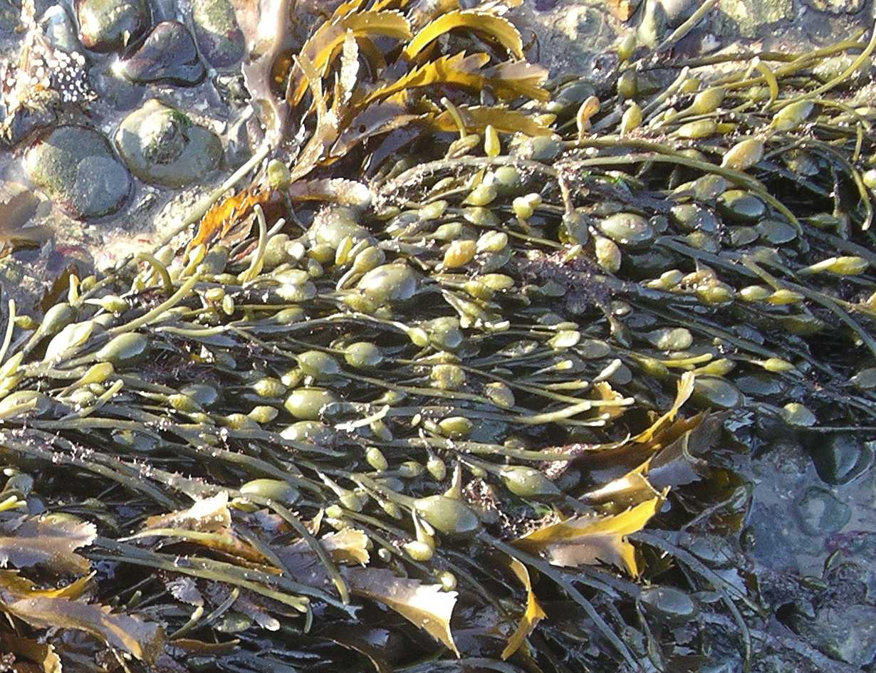 Ascophyllum nodosum together with laminae of Fucus seratus